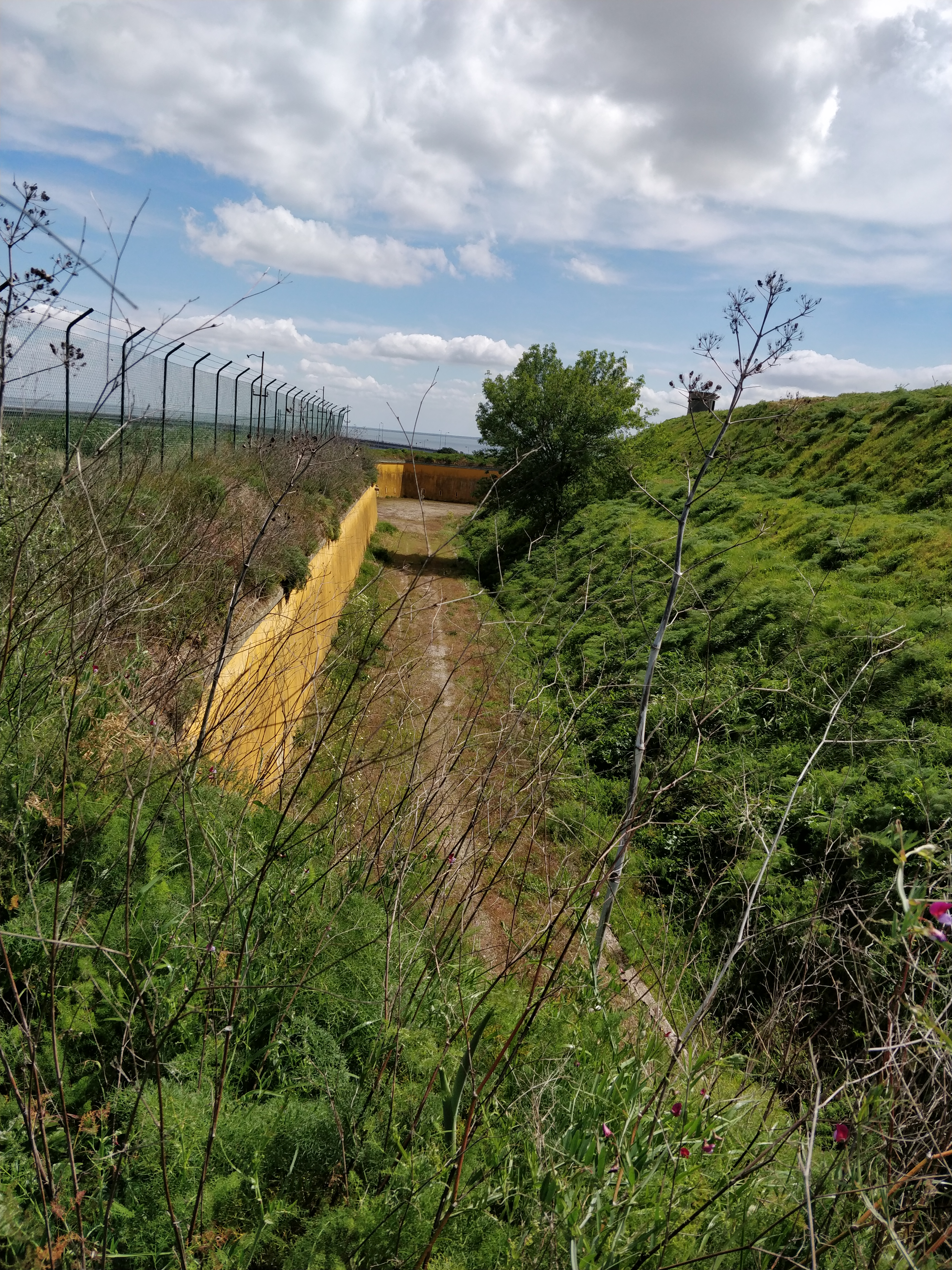 Moat of the Fort of Sacavem near Lisbon, Portugal